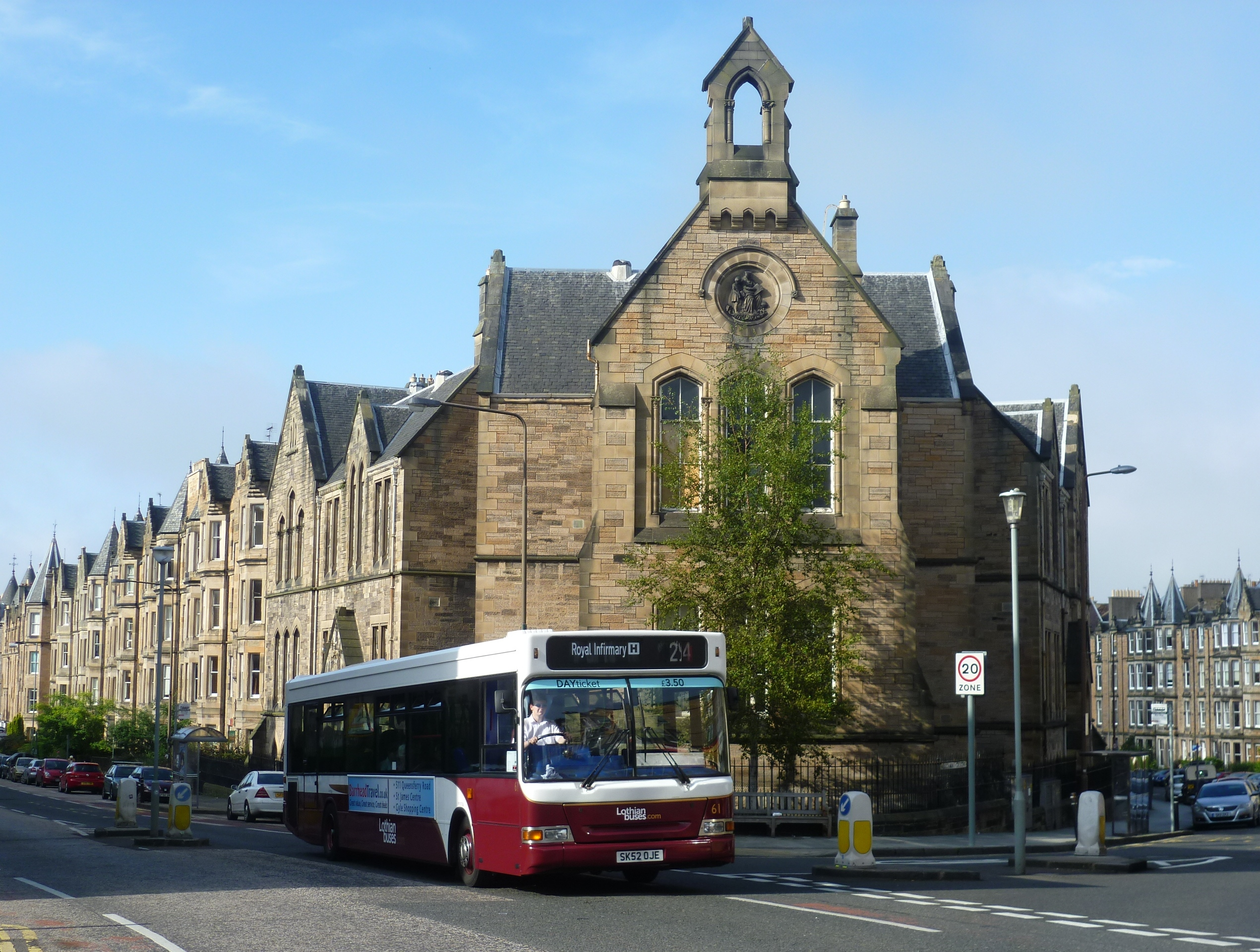 Dennis Dart SPD SK52 OJE in Marchmont